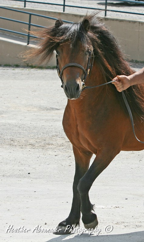 Bay Dartmoor Pony. Photo by Heather Abounader